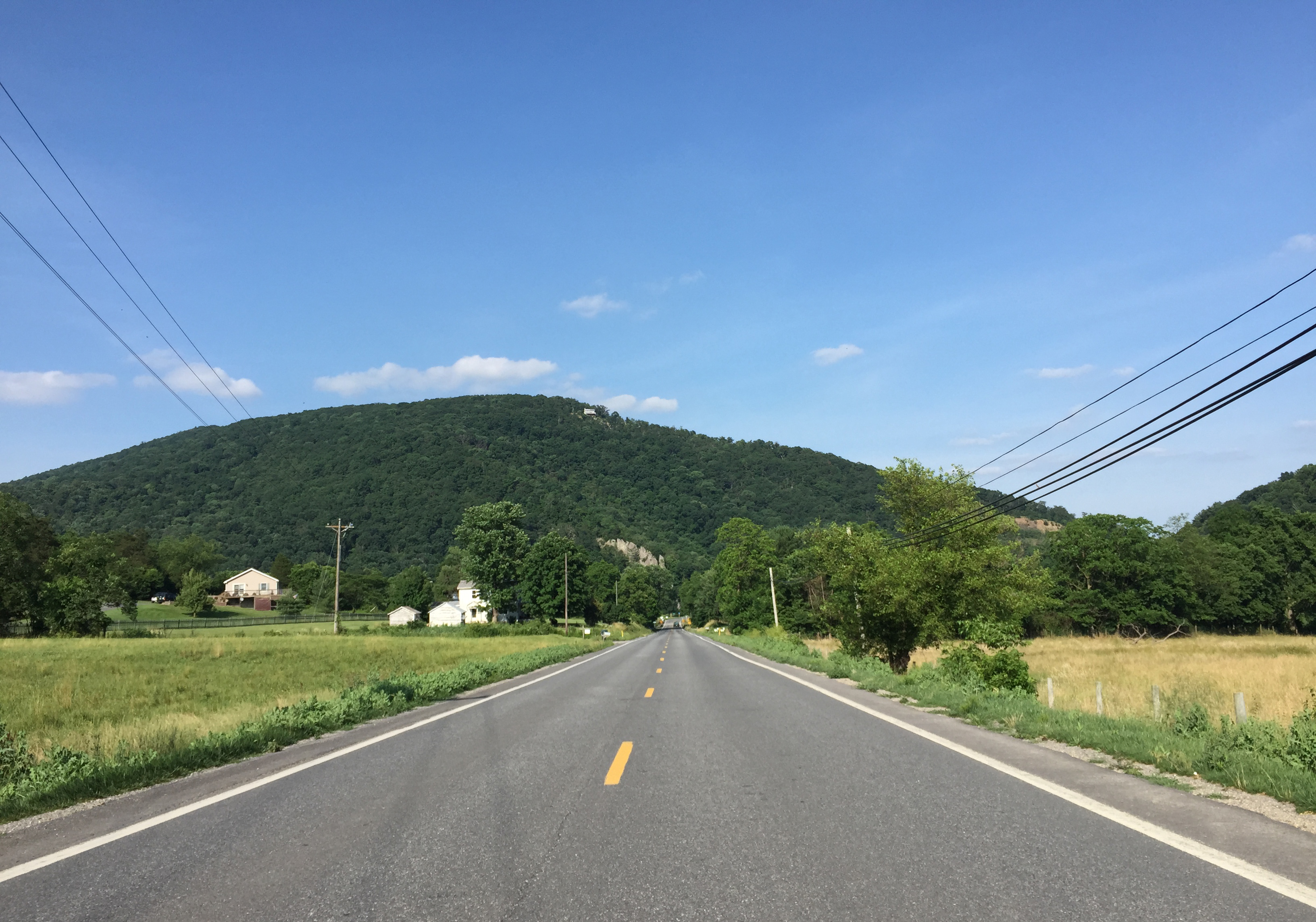 View east along Virginia State Route 259 (Brocks Gap Road) just west of Brocks Gap, Rockingham County, Virginia